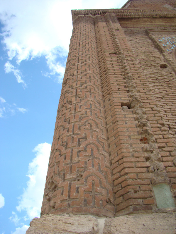 Detail Tower of Gonbade Sorkhe Maragheh .